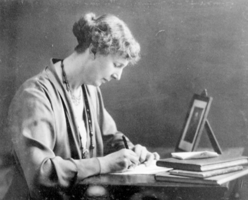 Anne Emily Cummins (12 October 1869 – 8 February 1936) was an early British medical social worker who was later called the "mother of almoners". guess date as 1900